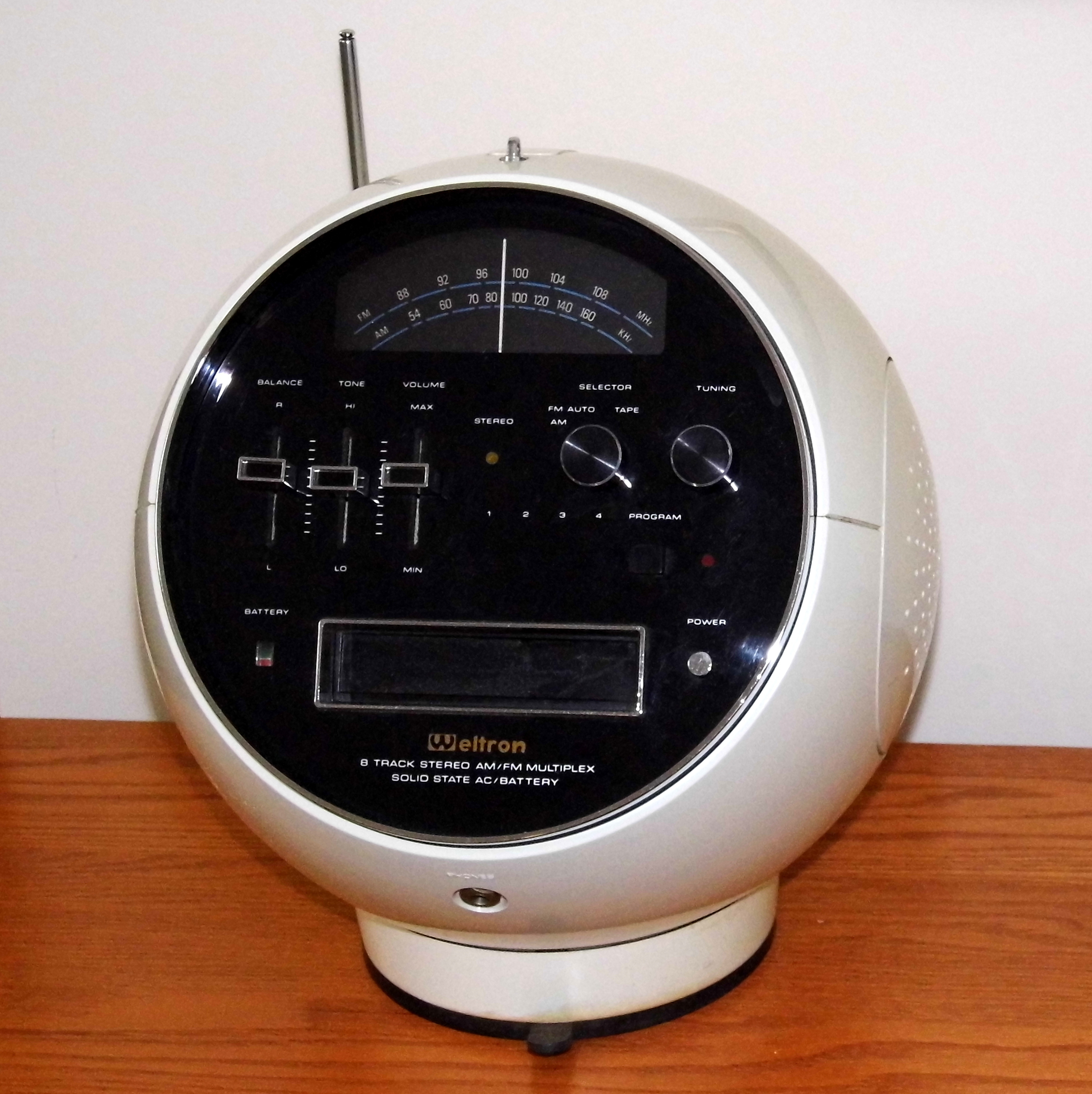 Vintage Weltron 8-Track Tape Stereo AM-FM Multiplex Solid State Radio, Model 2001 (aka The Space Ball Radio), 2 Speakers, 12 Inches In Diameter, Made In Japan, Circa 1971